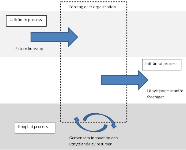 The process archetypes of open innevation